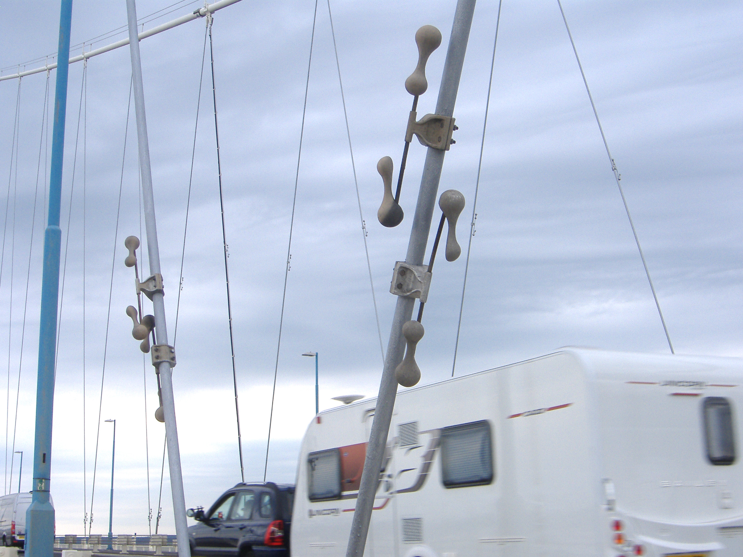 Stockbridge dampers clamped to the road-support cables of the Severn Bridge